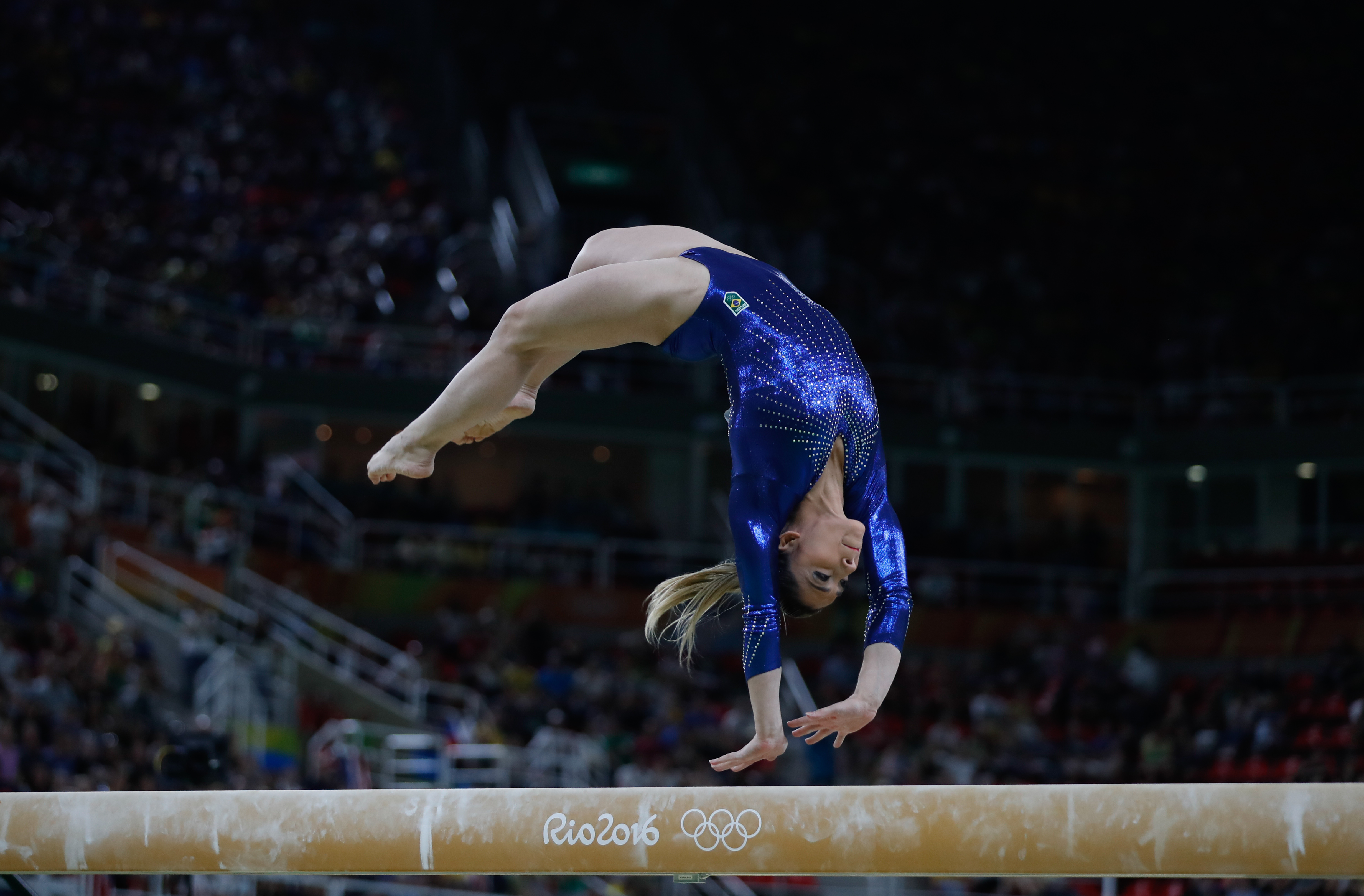 Rio de Janeiro - Daniele Hypólito in the final of the women's artistic gymnastics competition at the Rio 2016 Olympic Games, where Brazil finished in 8th place. (Fernando Frazão/Agência Brasil)